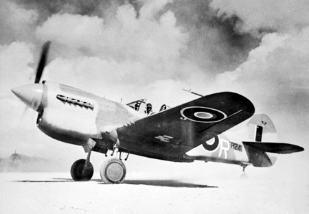 Western Desert, Cyrenaica, Libya. 28 October 1942. A Curtiss P-40 Kittyhawk fighter aircraft, code CV-R, serial no. FR24, of No. 3 Squadron RAAF taxies across the airfield before taking off on a sortie. Only a short time before fitters and electricians had begun working upon the engine in their non-stop tour of duty.